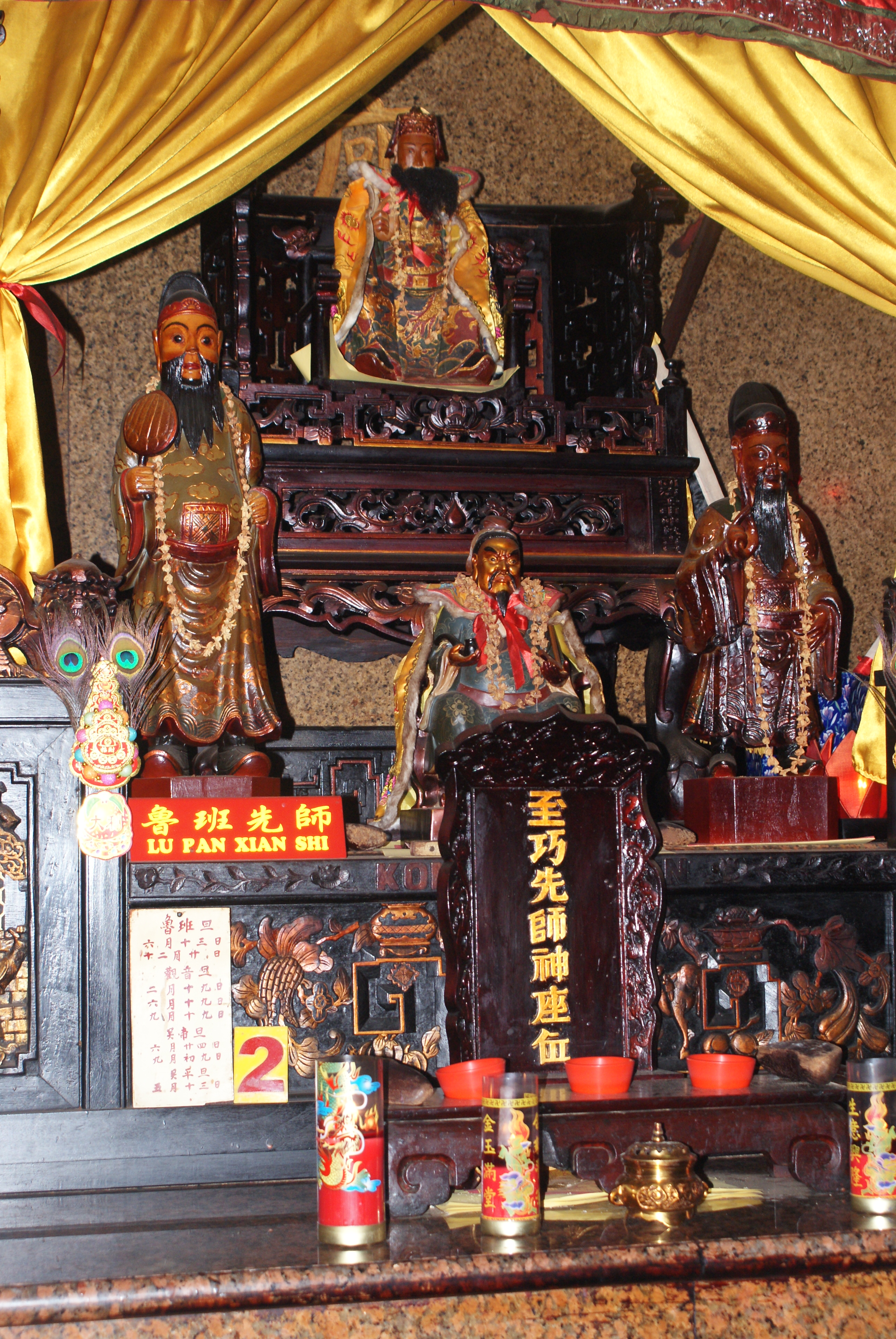 Lu Pan Xian Shi (The God of Furniture) in Lupan Vihara, Jakarta, Indonesia.